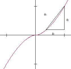 I created this image myself. It is not located anywhere else on the internet.